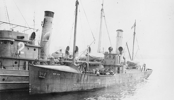 The United States Navy minesweeper tied up alongside another ship.